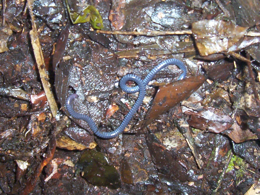 One specimen of Boulengerula taitanus, african caecilian.